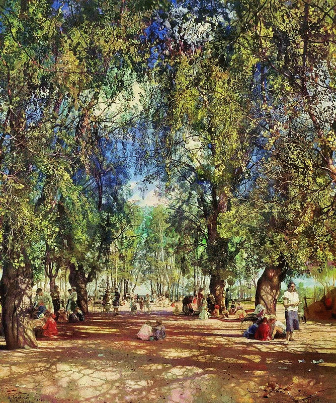 Alley in the Parklabel QS:Lru,"Аллея парка" label QS:Len,"Alley in the Park"